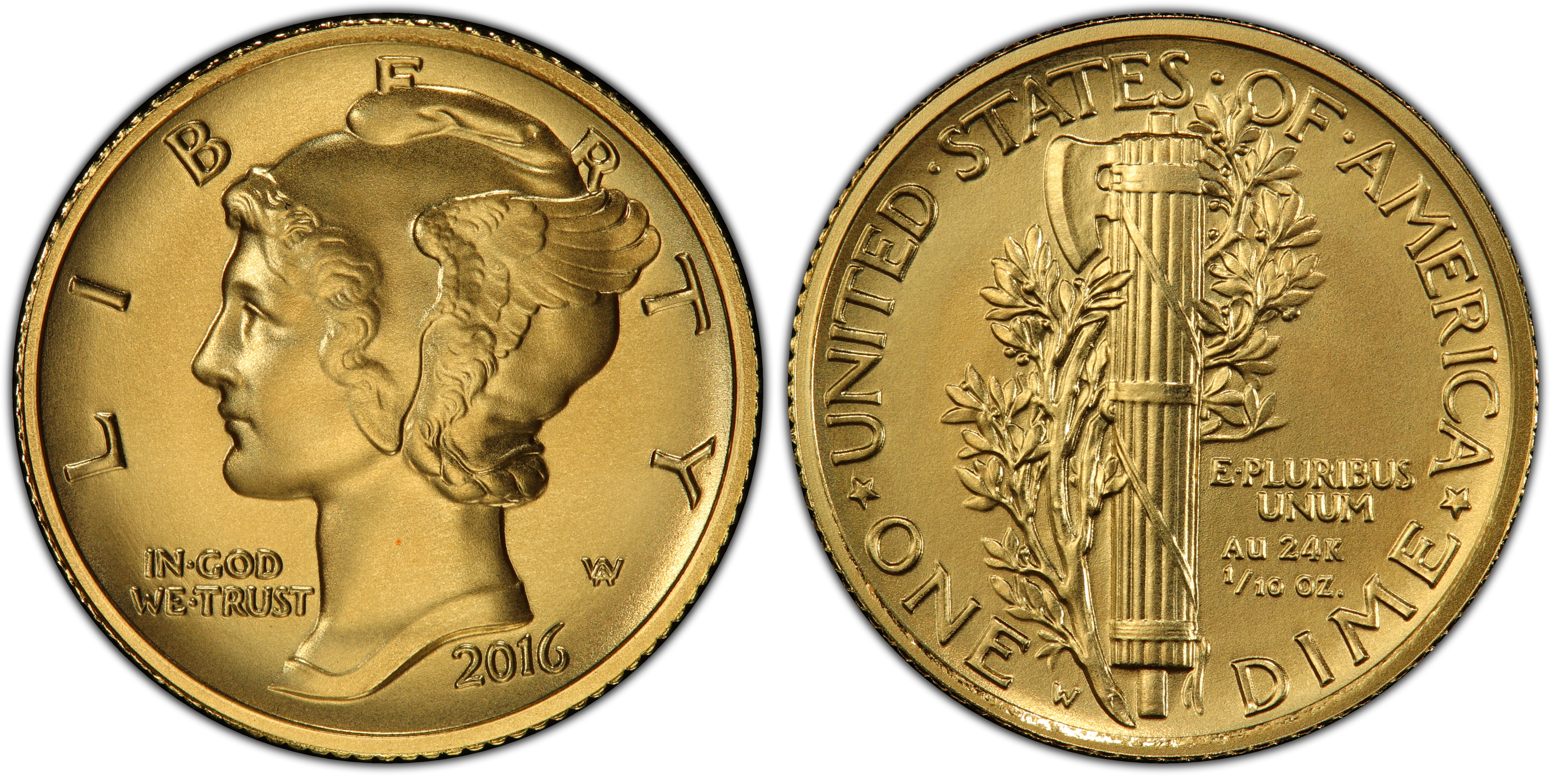 A 100th anniversary 2016-W gold Mercury dime. This is taken from [1]. As a U.S. coin, the design is in the public domain, and per WP:IUP: "Also note that in the United States, reproductions of two-dimensional artwork which is in the public domain because of age do not generate a new copyright — for example, a straight-on photograph of the Mona Lisa would not be considered copyrighted (see Bridgeman v. Corel). Scans of images alone do not generate new copyrights — they merely inherit the copyright status of the image they are reproducing." Since this is simply a straight-on photo or scan, with no creative aspect involved, it should not be subject to copyright as per this precedent.